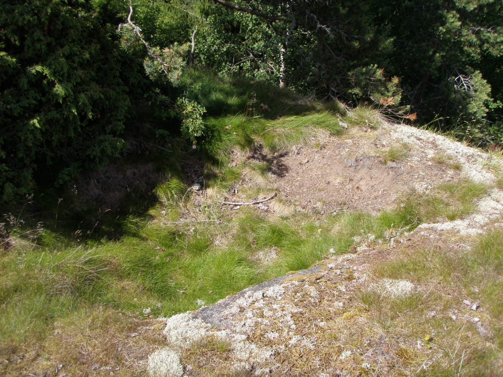 In Tingstad parish between Norrköping and Söderköping is one of the most prominent hill forts in the region of Östergötland. It has partly been investigated archaeologically by Bror Schnittger in summer 1909, when it was found cultural layers that suggested prolonged and continuous activity on the site. There were particular bargains imported from the continent in the form of a small decorated glass cups and glass fragments, a spiral-wrapped gold (guldten in Swedish) and more everyday items related to agriculture. Schnittger dating the hill fort to the Roman Iron Age.